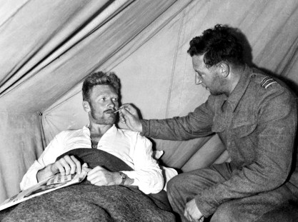 North Africa: Western Desert, Libya, Antelat. Flying Officer (FO) Andrew William 'Nicky' Barr rests in a tent after traveling three days through enemy territory after his aircraft was shot down. He has his temperature taken by Squadron Medical Officer, Flight Lieutenant Harold Crowcombe Stone.